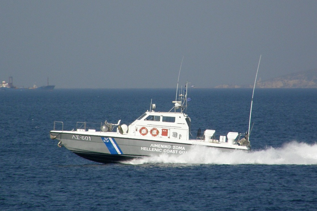 Hellenic CG patrol boat PLS-601, SY4141.